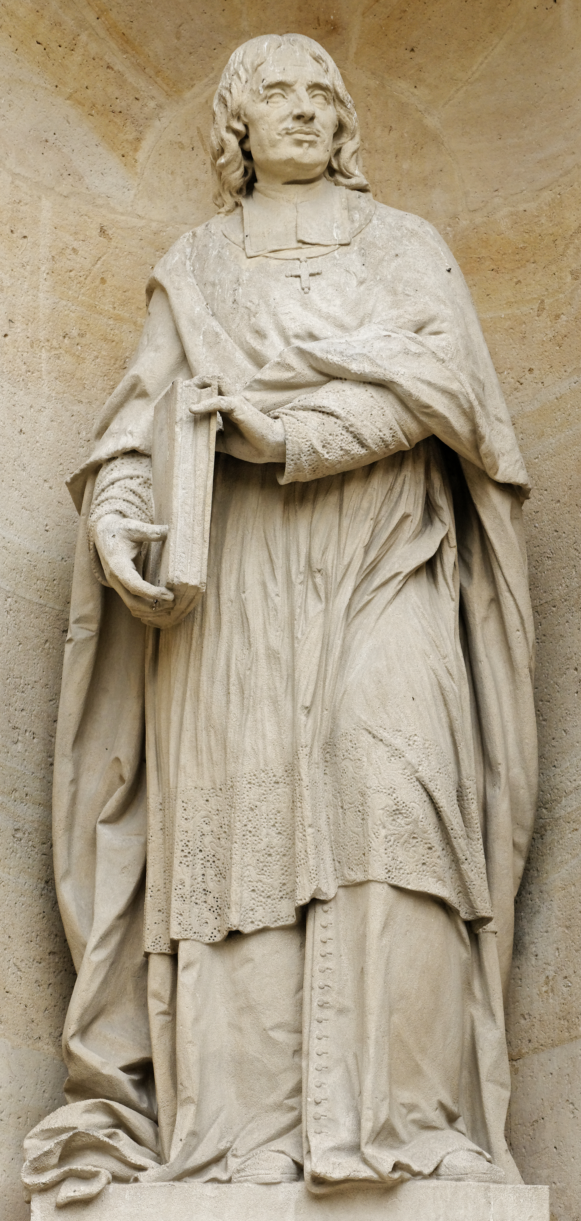 Statue of Jacques-Bénigne Bossuet by Louis-Ernest Barrias (1841-1905). Façade of the chapel of the Sorbonne, Paris.